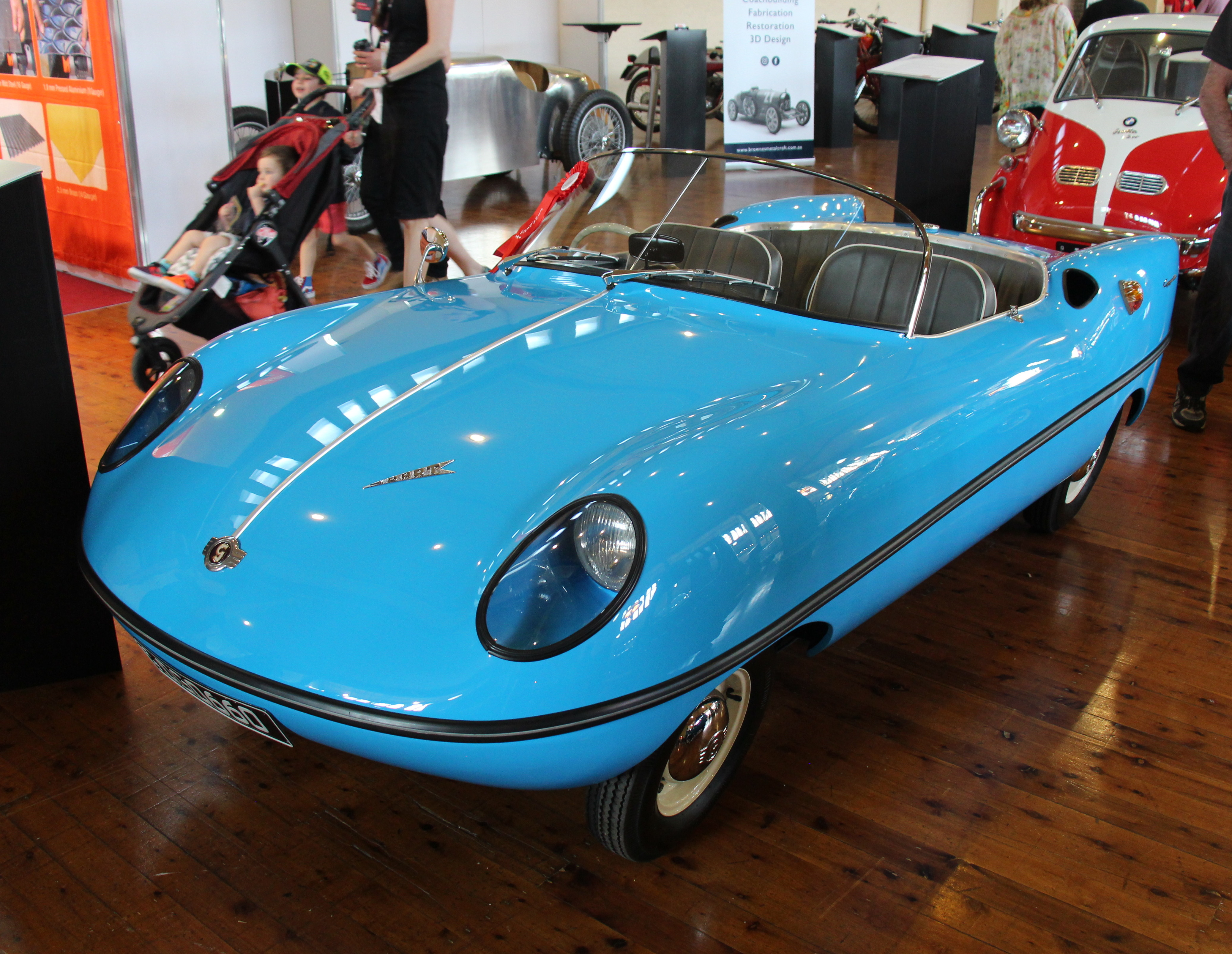 The Goggomobil Dart was a microcar which was developed in Australia by Sydney company Buckle Motors Pty Ltd and produced from 1959-61. The Dart was based on the chassis and mechanical components of the German Goggomobil microcar, which was a product of Hans Glas GmbH of Dingolfing, in Bavaria, Germany. The car featured an Australian-designed fiberglass two-seater open sports car body without doors. It was powered by a rear-mounted twin-cylinder two-stroke motor available in both 300 cc and 400 cc variants, and had a small luggage compartment built into the nose. Around 700 examples were produced.